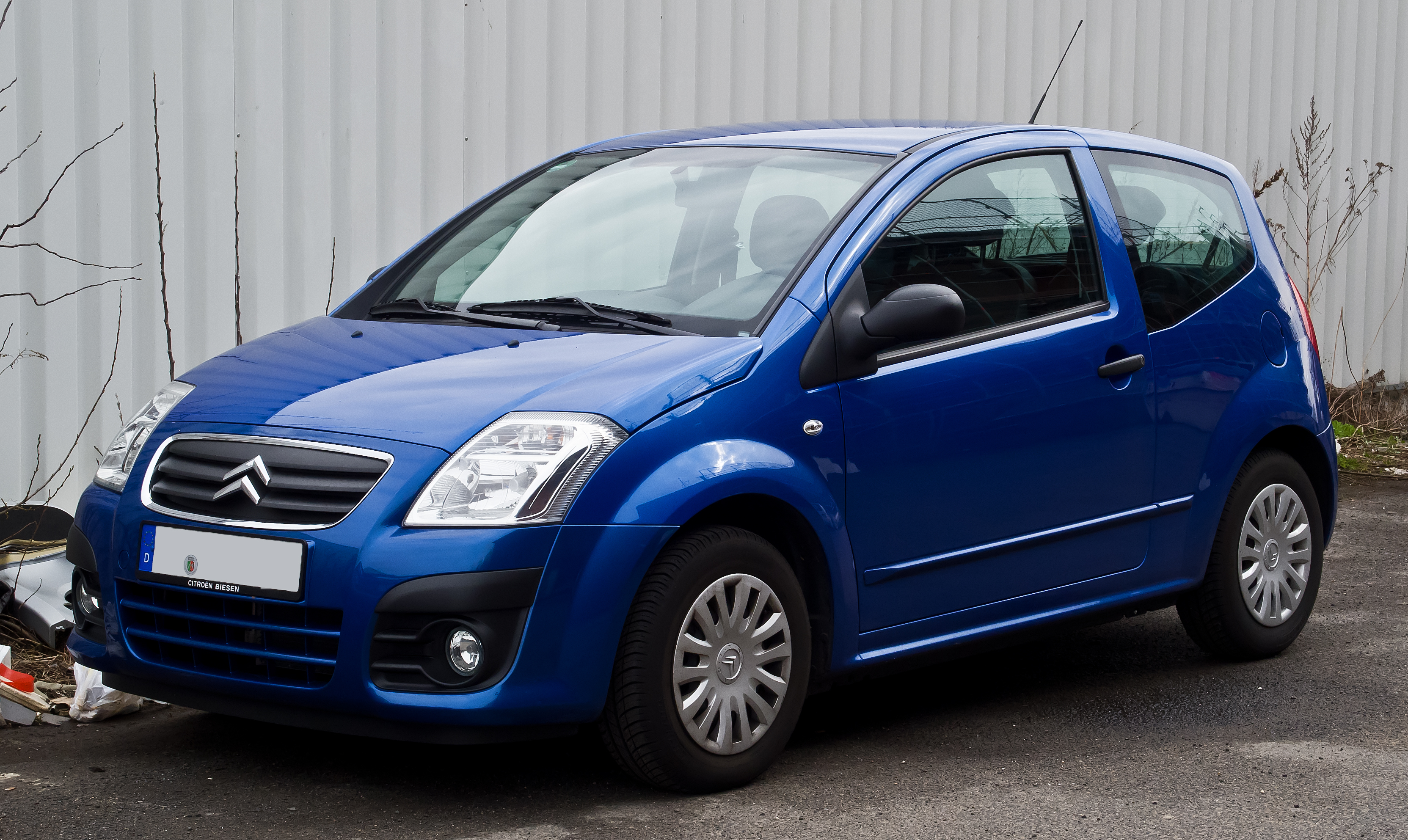 Citroën C2 (2. Facelift)